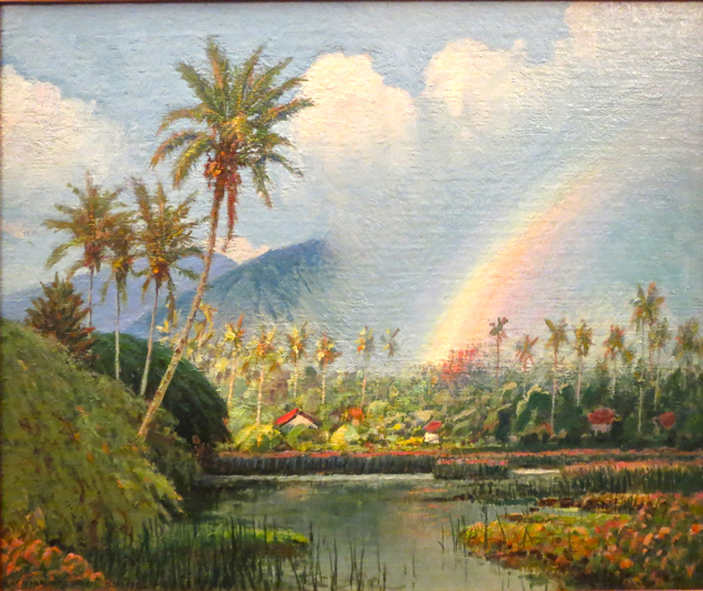 D. Howard Hitchcock. Title: Cottages Amongst the Palms, Medium: oil on canvas, signed, Image Dimensions: 20" height x 24" width, Framed in Koa: 20-1/4" height x 36-1/4" width